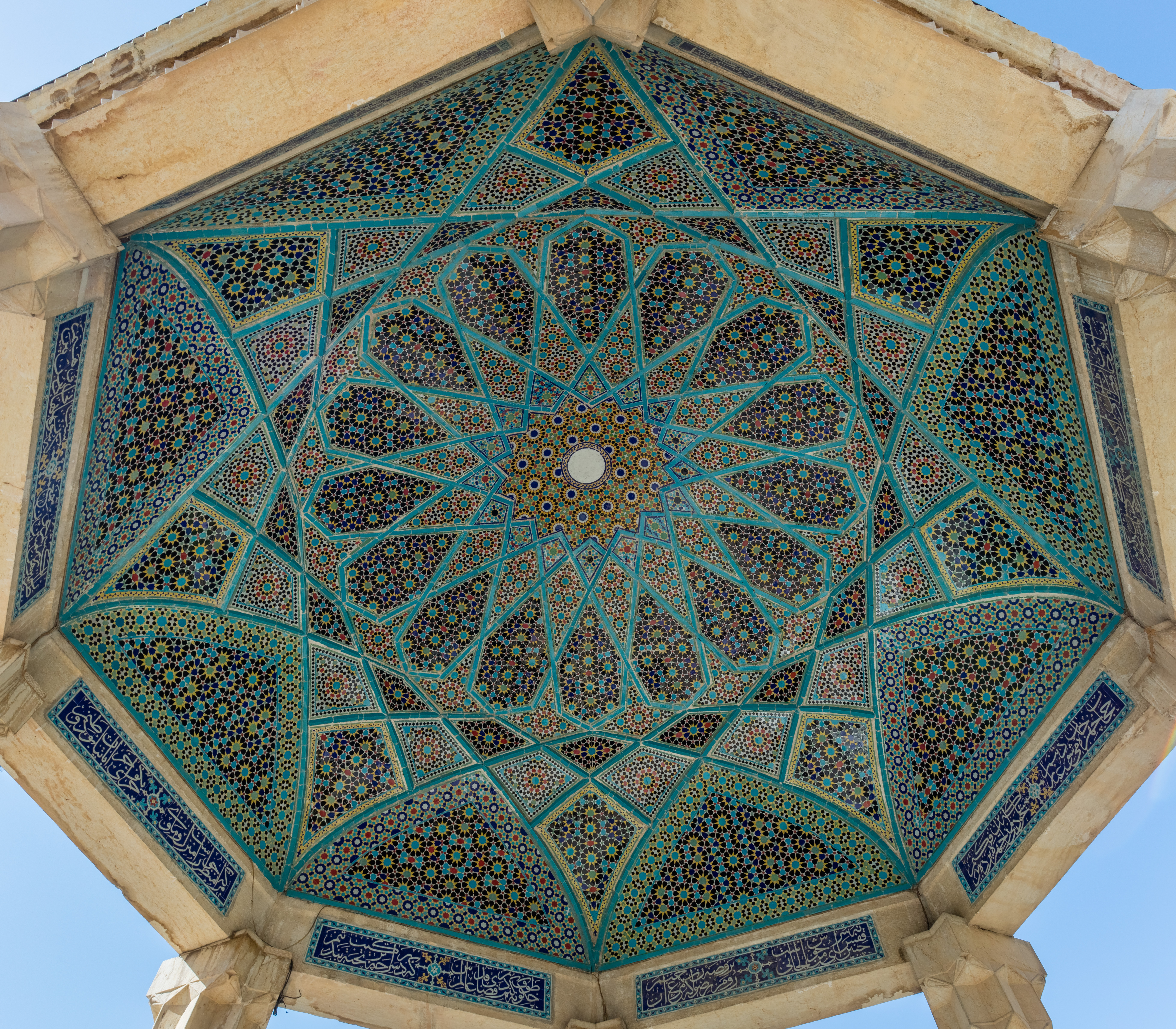 Ceiling over the marble Tomb of Hafez, northern edge of the city of Shiraz, Iran. The mausoleum is dedicated to Khwāja Shams-ud-Dīn Muḥammad Ḥāfeẓ-e Shīrāzī (1325/6-1389/90), better known as Hafez, one of the most important poets in the country history. The mauselum is situated in the Musalla Gardens and was built in 1935 according to a design of French architect and archaeologist André Godard, are at the site of previous structures, the best-known of which was built in 1773.